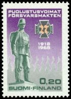 50 years anniversary of Finnish army - statue in Vasa